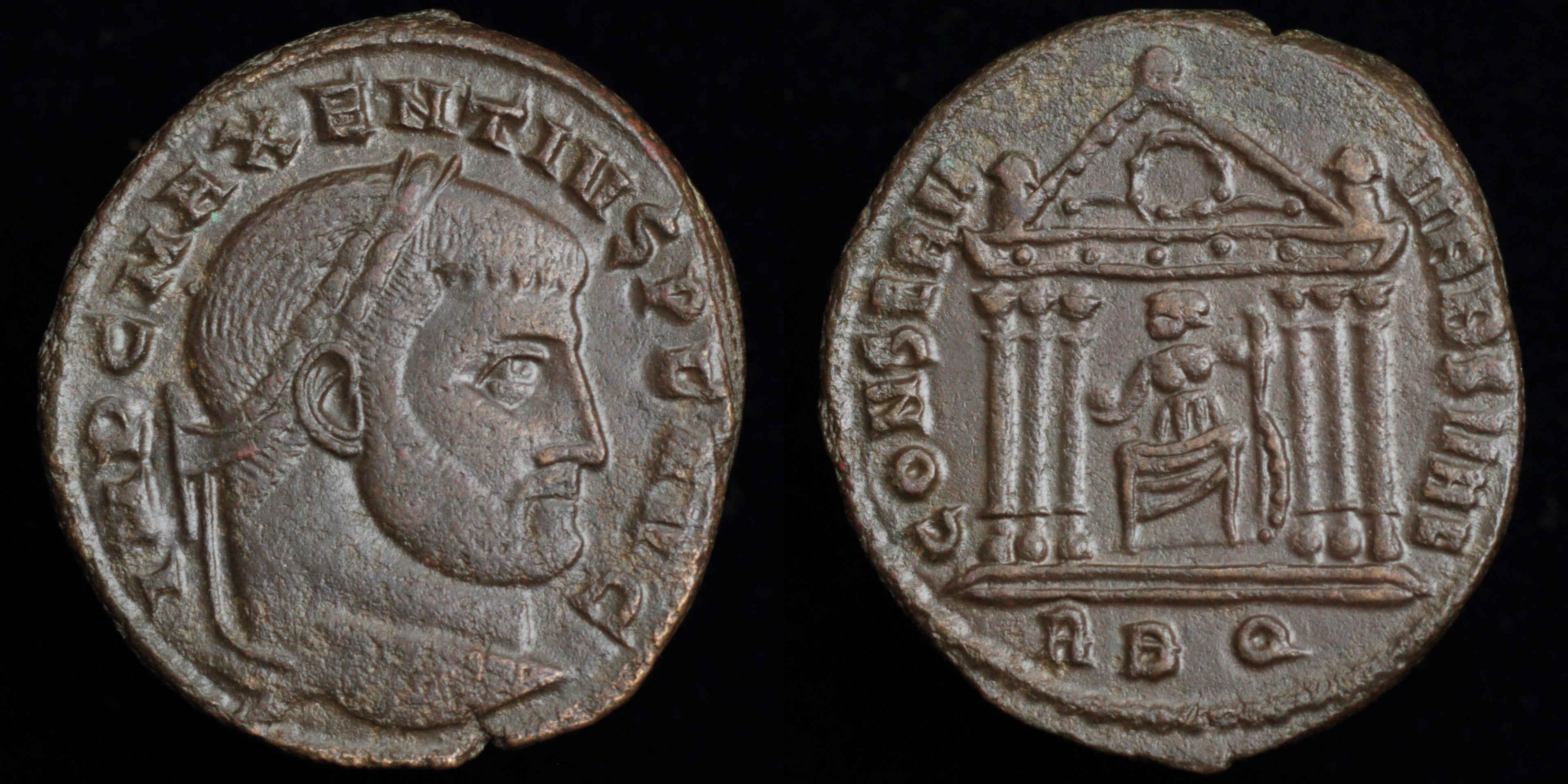 bronze follis struck in Rome 308-310 AD obverse laureate head right IMP C MAXENTIVS P F AVG reverse: Roma seated left within hexastyle temple, holding globe and sceptre, a shield to her right and rear; wreath in thympanon, 2 Victories on the corners CONSERV_VRB SVAE exergue: RBQ reference: RIC VI Rome 210 weight: 7,51g